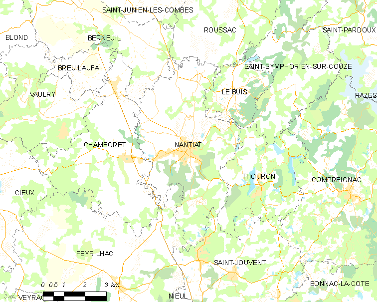 Map of French municipality Nantiat